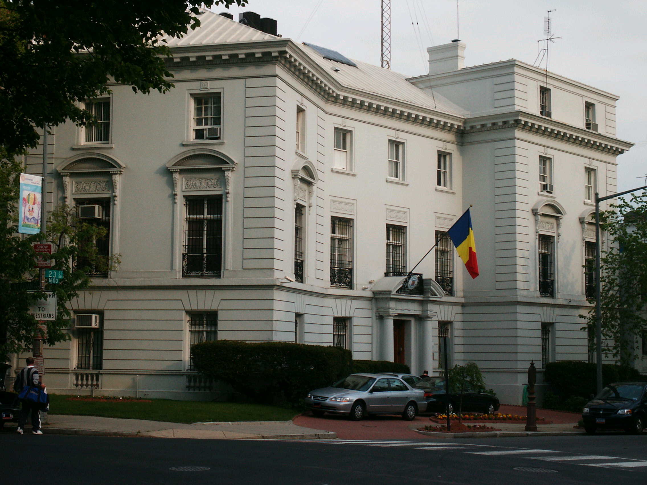 This photograph depicts the Embassy of Romania in the United States, located at 1607 23rd Street NW in Washington, D.C. I, Gyrofrog, took this picture myself on May 7, 2005 during the Washington, D.C. Wikipedia Meetup, pursuant toward a request for pictures of embassies in Washington. Special thanks to my Embassy-seeking cohorts TTLightningRod (who drove) and Danny.